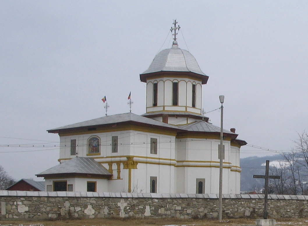 "Monastery" Church, in Vălenii de Munte, Prahova, Romania